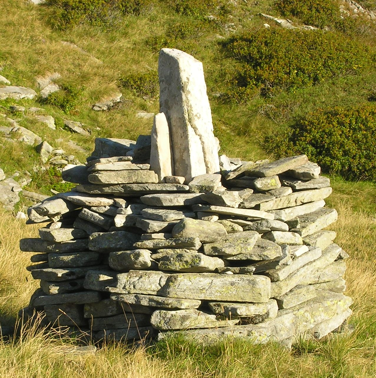 Dry stone marking, purpose unknown.